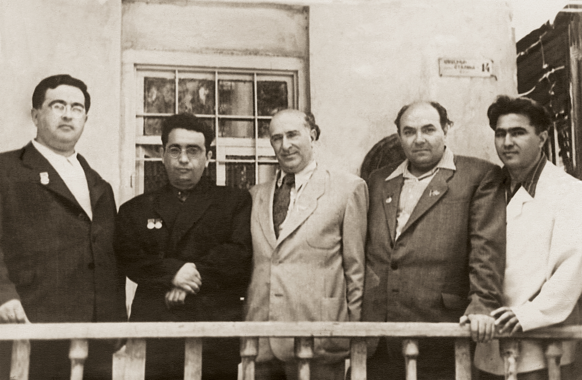 Soltan Hajibeyov, Gara Garayev, Bulbul, Said Rustamov, Suleyman Alasgarov (from left to right)